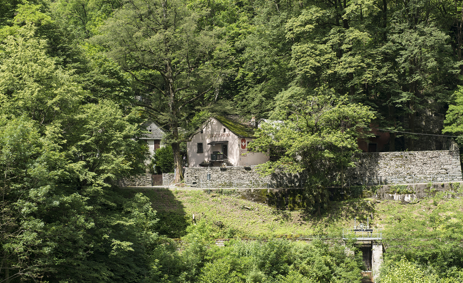 Grotto America - Progetto Parco Nazionale del Locarnese